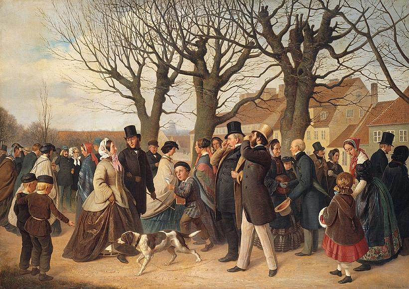 Andreas Herman Hunæus 's painting På Københavns Vold aftenen før Store Bededag